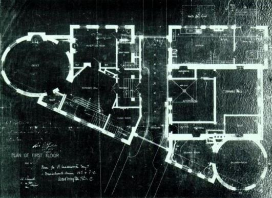 Floor plan of the Wadsworth House in Washington, D.C.